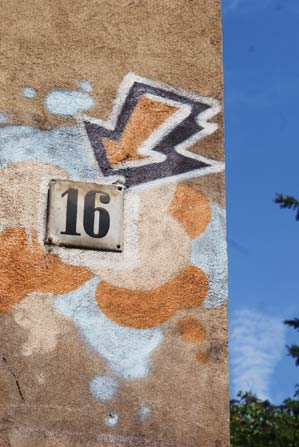 RM16 house number